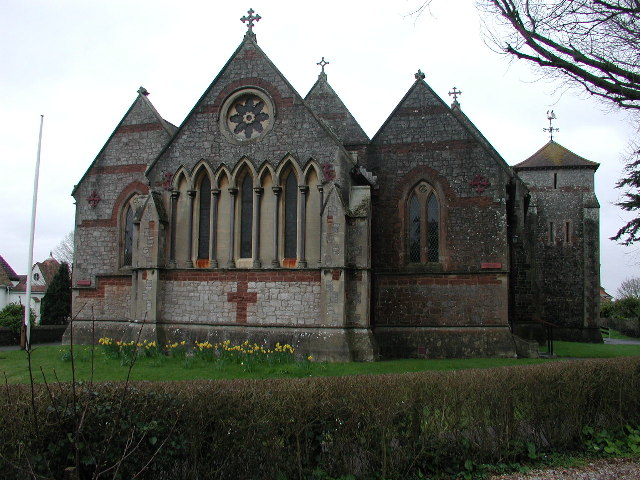 Parish church of St John the Evangelist, Highbridge, Somerset, seen from the east